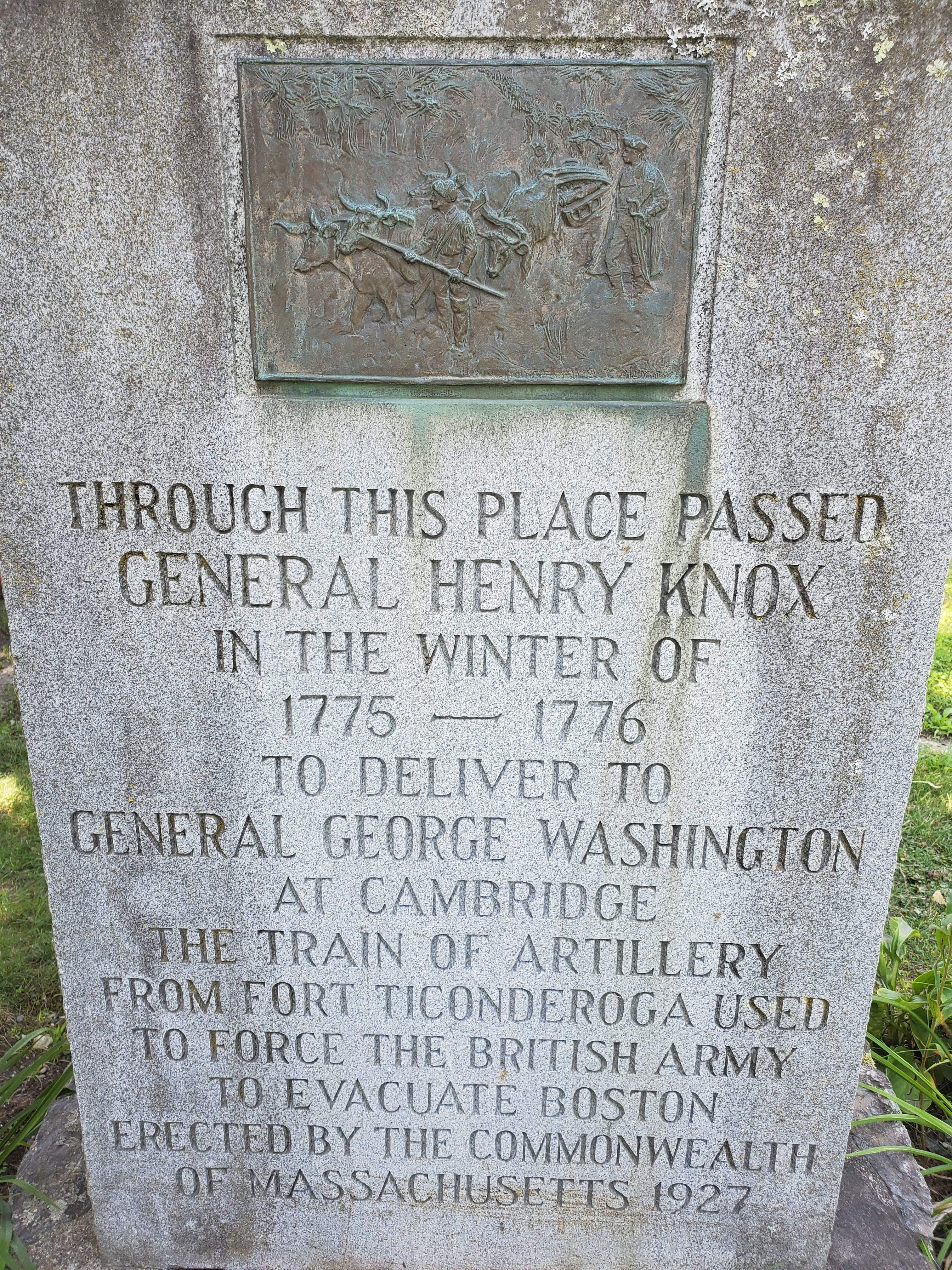 Marker in North Egremont, MA, commemorating Henry Knox's "Train of Artillery" from Ticonderoga to Boston, 1775-1776.